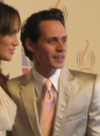 Marc Anthony at the Lo Nuestro Awards, Miami, FL, February 22, 2007